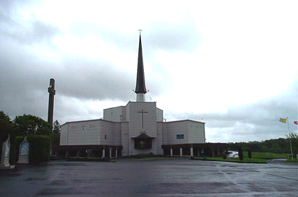 Knock, Co. Mayo, The Roman Catholic Basilica. This is reputed to be the church with the largest seating capacity in the world.